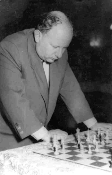 Isaac Boleslavsk – public simultaneous chess performance on 38 boards in Wilkau-Haßlau (Saxony, Germany). Trainer Boleslawski used a free day of the Leipzig chess olympiad to visit the region.